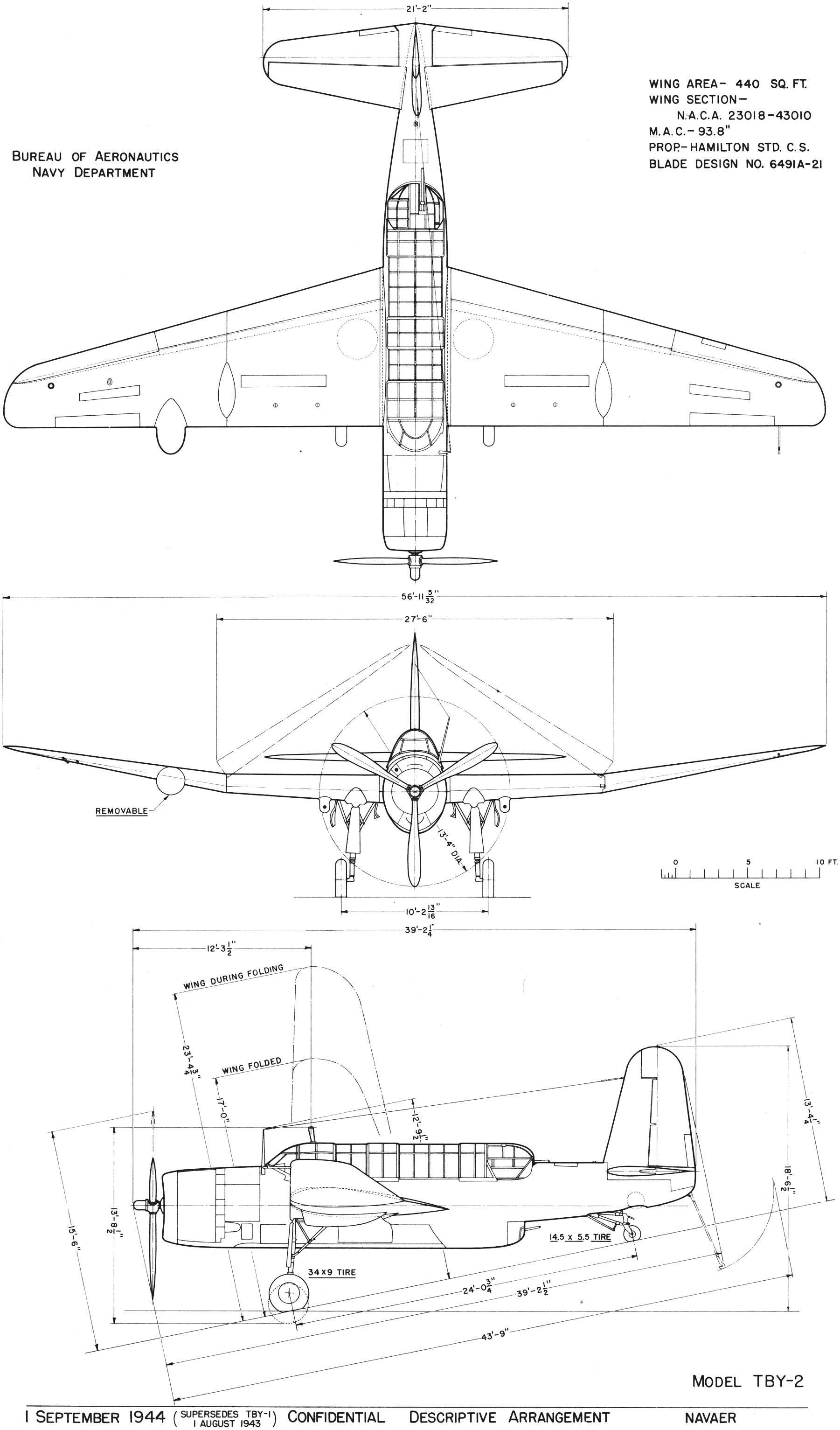 Line drawings for the Consoldated TBY-2 Sea Wolf.